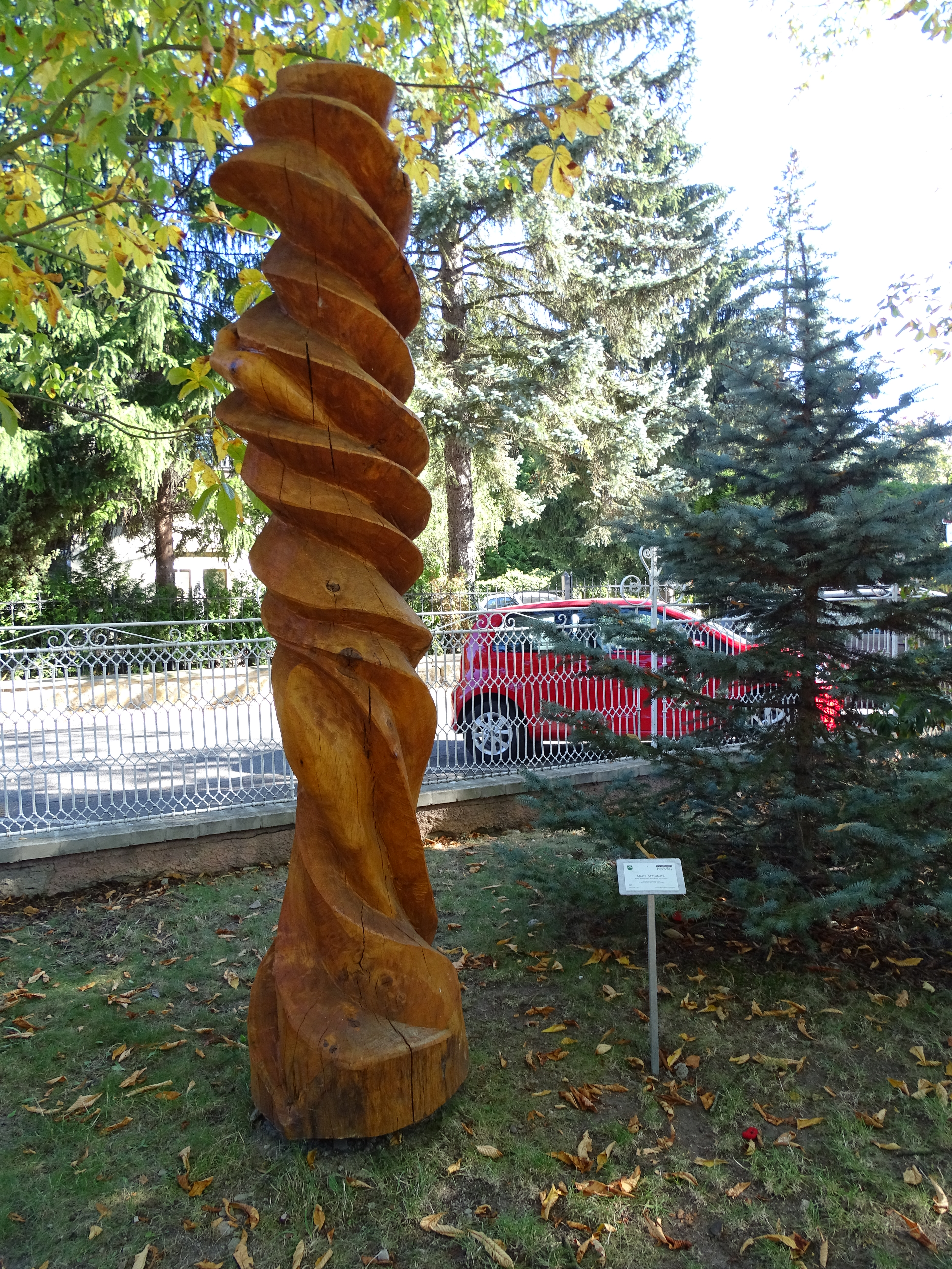 Prague-Klánovice, Czech Republic. Slavětínská, Plačická, a sculpture by Marie Kraťuková.